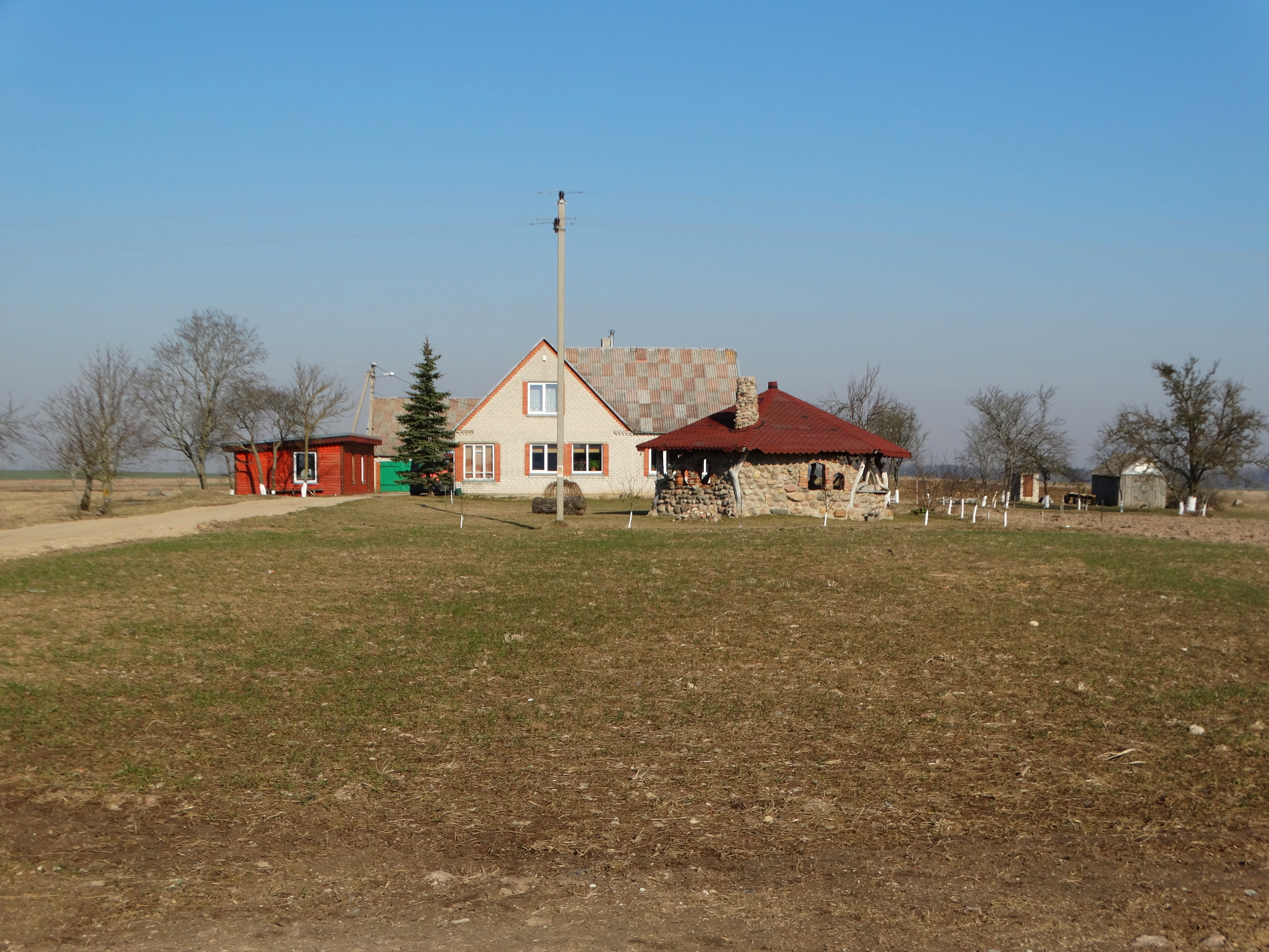 Kirkliai, Telšiai district, Lithuania